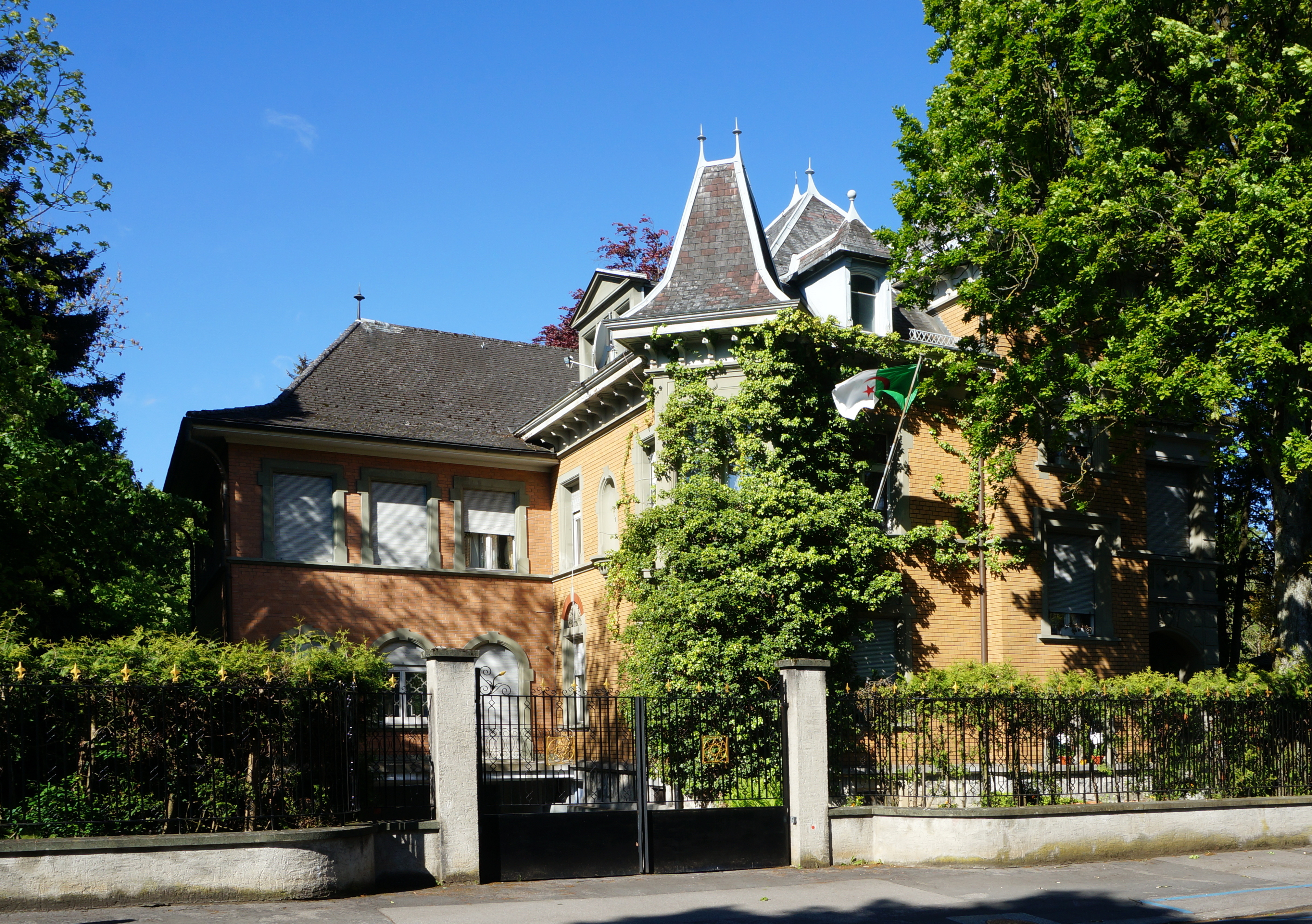 Bern, Elfenstrasse 4. Algerian Embassy in Switzerland.